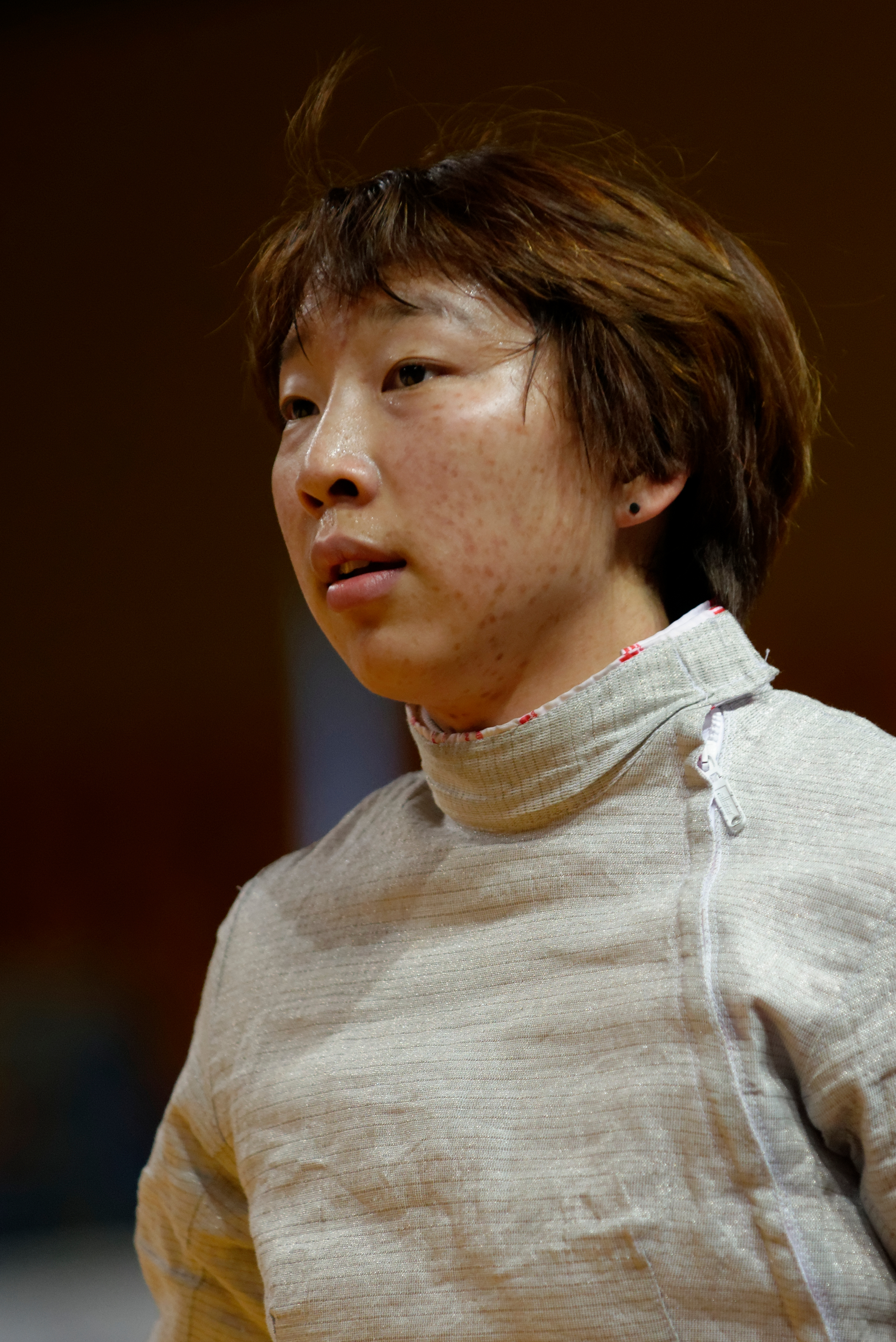 Lee Ra-jin of Korea during her T32 bout against France's Charlotte Lembach at the Trophée BNP Paribas-Grand Prix FIE, first stage of the women's sabre World Cup, in Orléans.